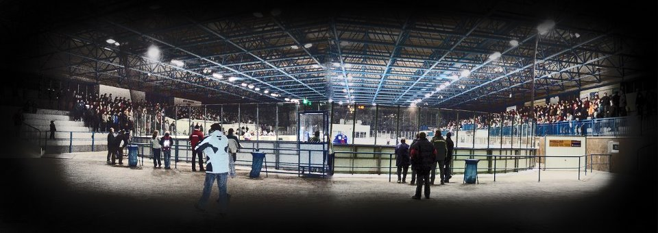 Smart look at the interior of Rokycany stadium.